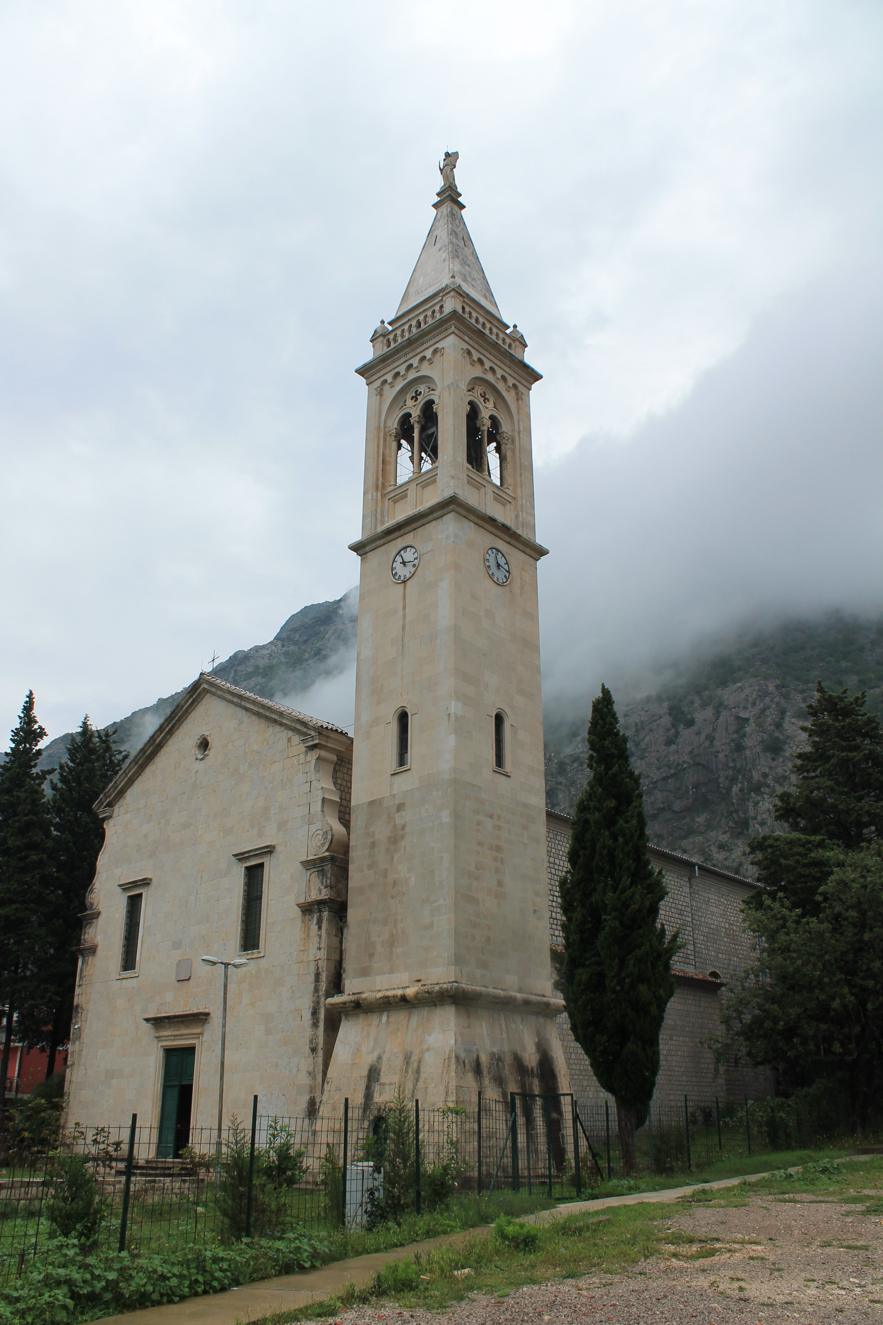 Католическая церковь св. Евстахия (1770) в Доброте, Черногория